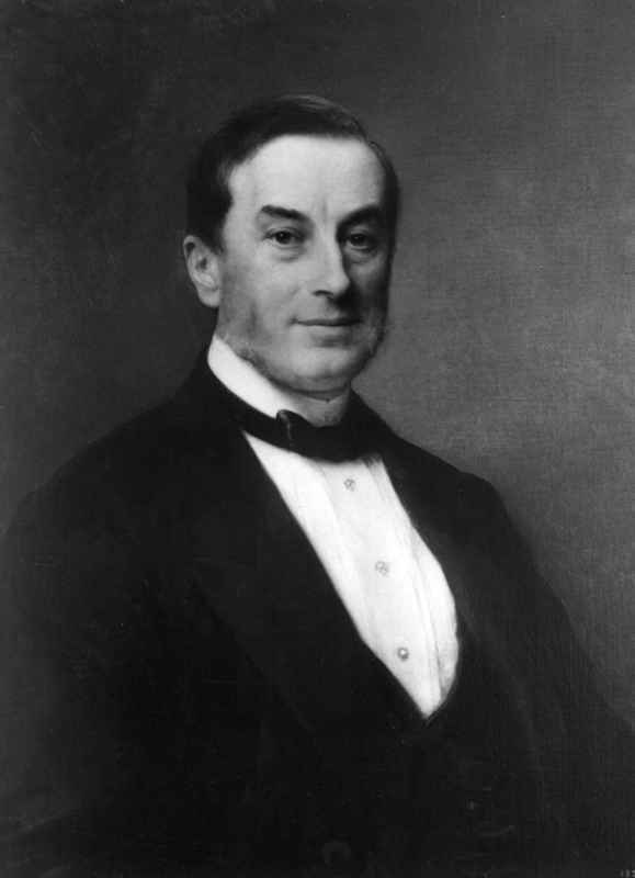 Johann Heinrich Gossler III (1805–1879), co-owner of Berenberg Bank, consul-general of Hawaii, married Mary Elizabeth Bray (1810–1886), a granddaughter of Samuel Eliot.